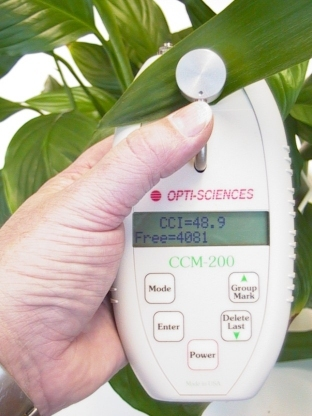 CCM200 chlorophyll content meter measuring chlorophyll content by absorption